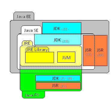 Organization of Java Platforms Java EE, Java SE, Java FX